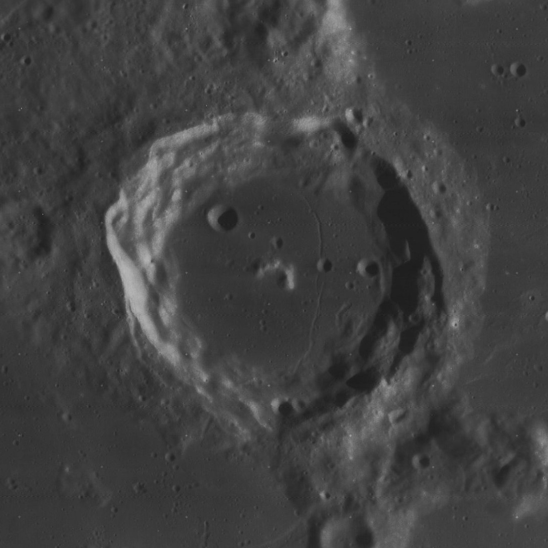 Campanus, on the moon.